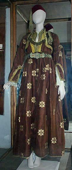 Formal gown, image from the Costume Museum, Kastoria, West Macedonia, Greece